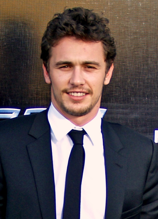 James Franco at the premiere of Spiderman 3 in Queens, New York. This is a cropped version of File:James Franco by David Shankbone.jpg.